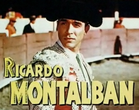 Cropped screenshot of Ricardo Montalban from the trailer for the film Fiesta